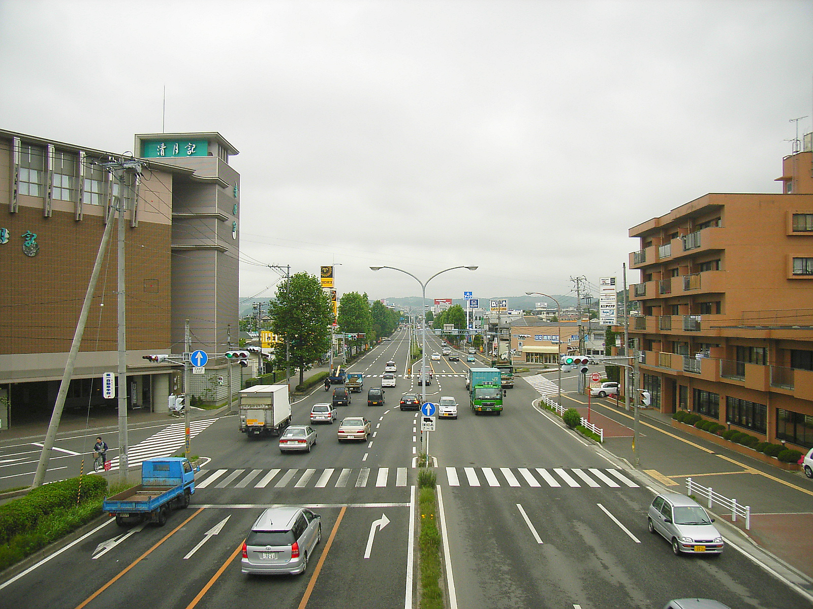 National Highway 286 of Japan. Sendai, Miyagi prefecture, Japan.